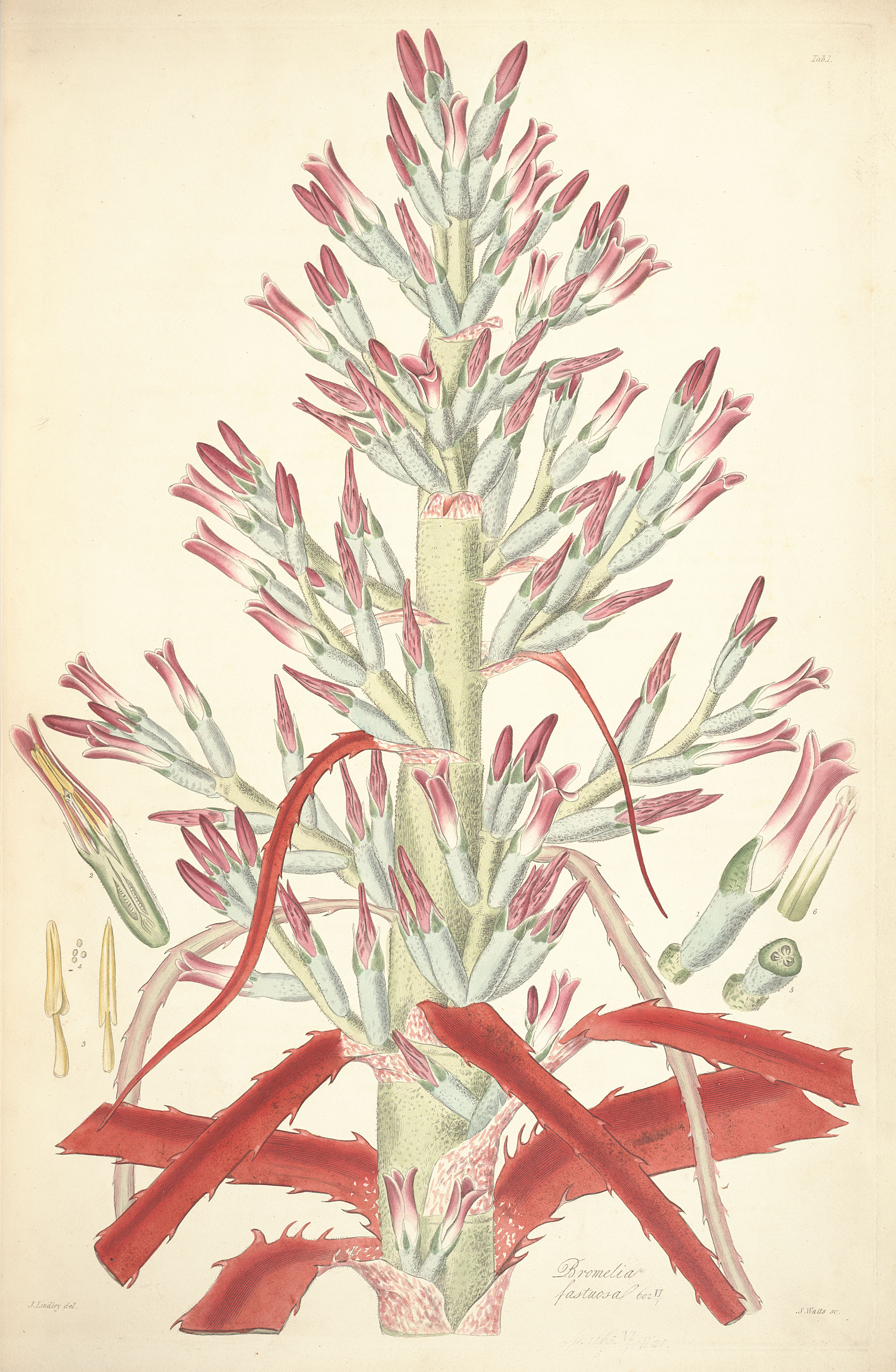 Illustration of Bromelia pinguin (as syn. Bromelia fastuosa)